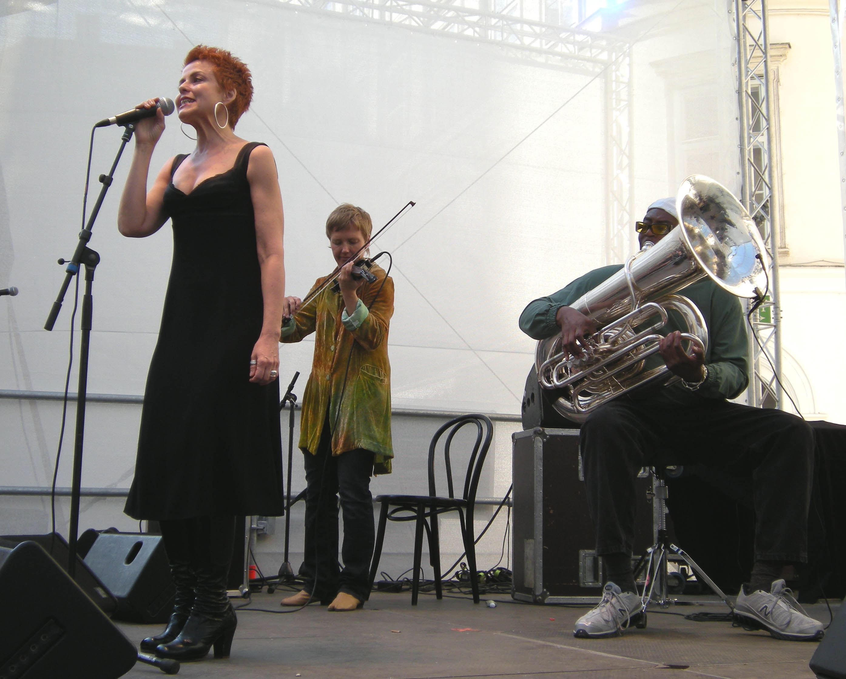 'Jamming Europe' performance at Vienna's annual Stadtfest, 2009 Note: Camera time is set on UTC, which is local time -2.